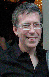 Kevin Greutert and wife Elizabeth Rowin at Comic Con 2010 (Cropped)